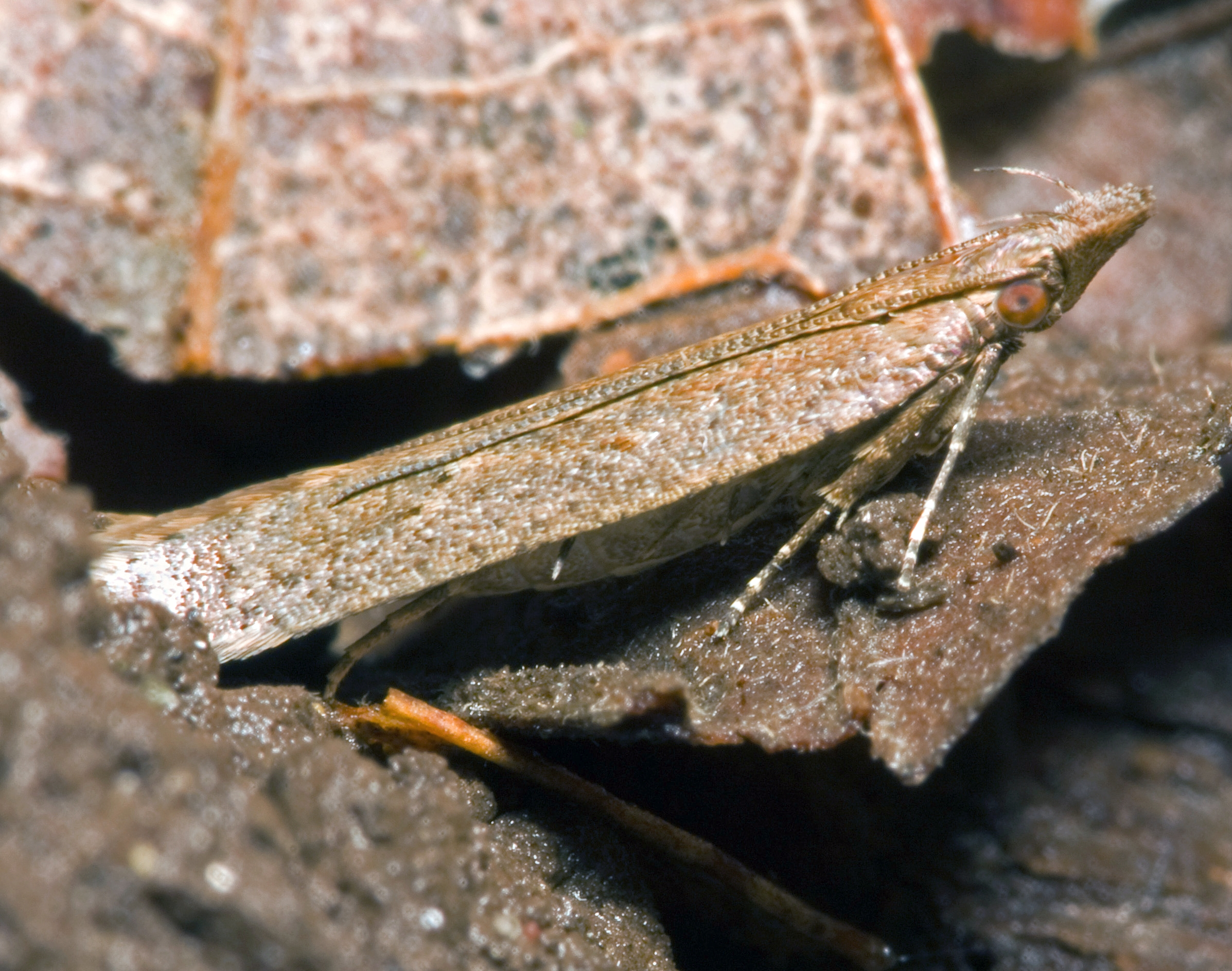 Adult twirler Moth - ""Dichomeris ligulella"", Family Gelechiidae. NOTE: filename is incorrect